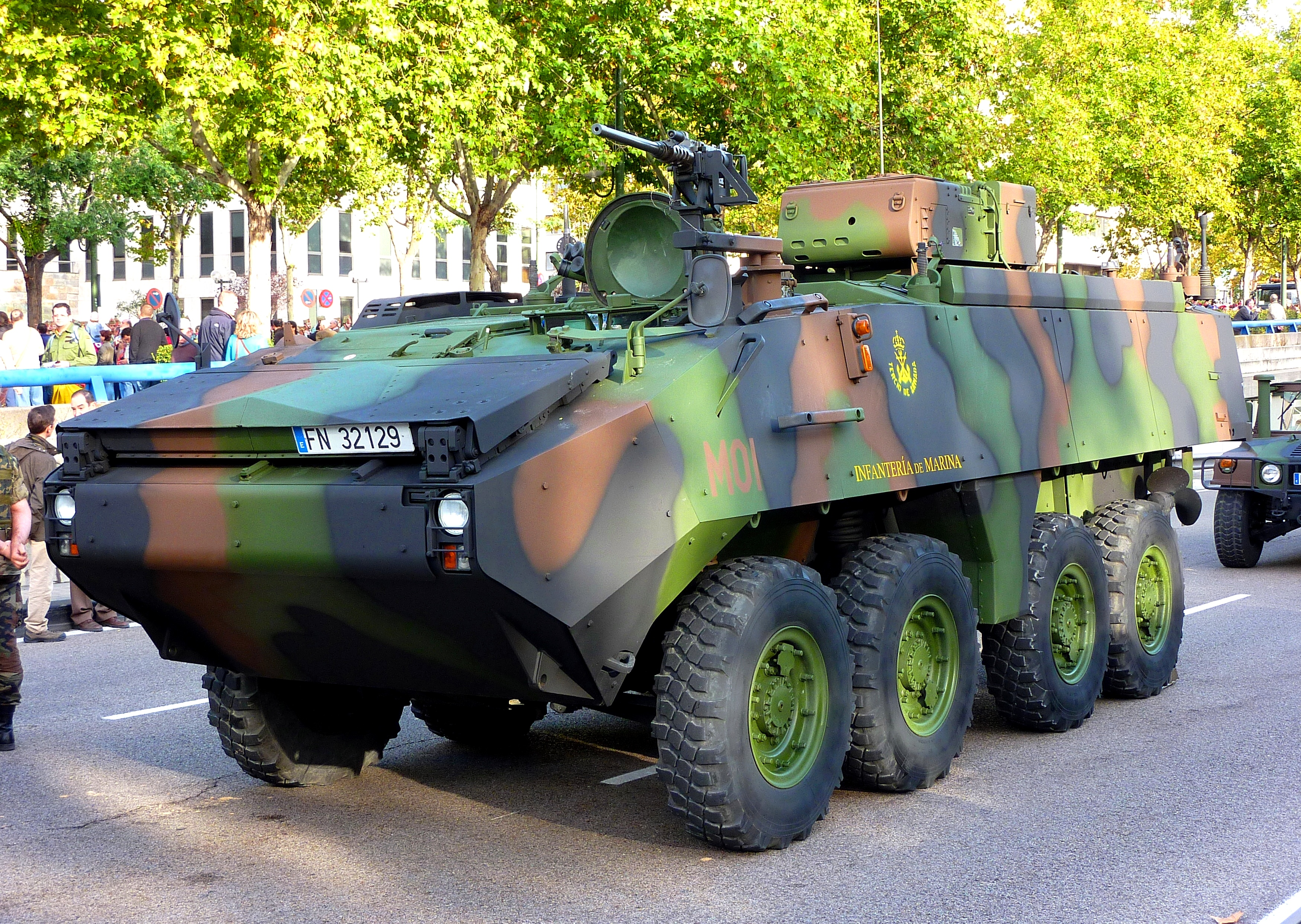 MOWAG Piranha IIIC command version of the Spanish Marines.